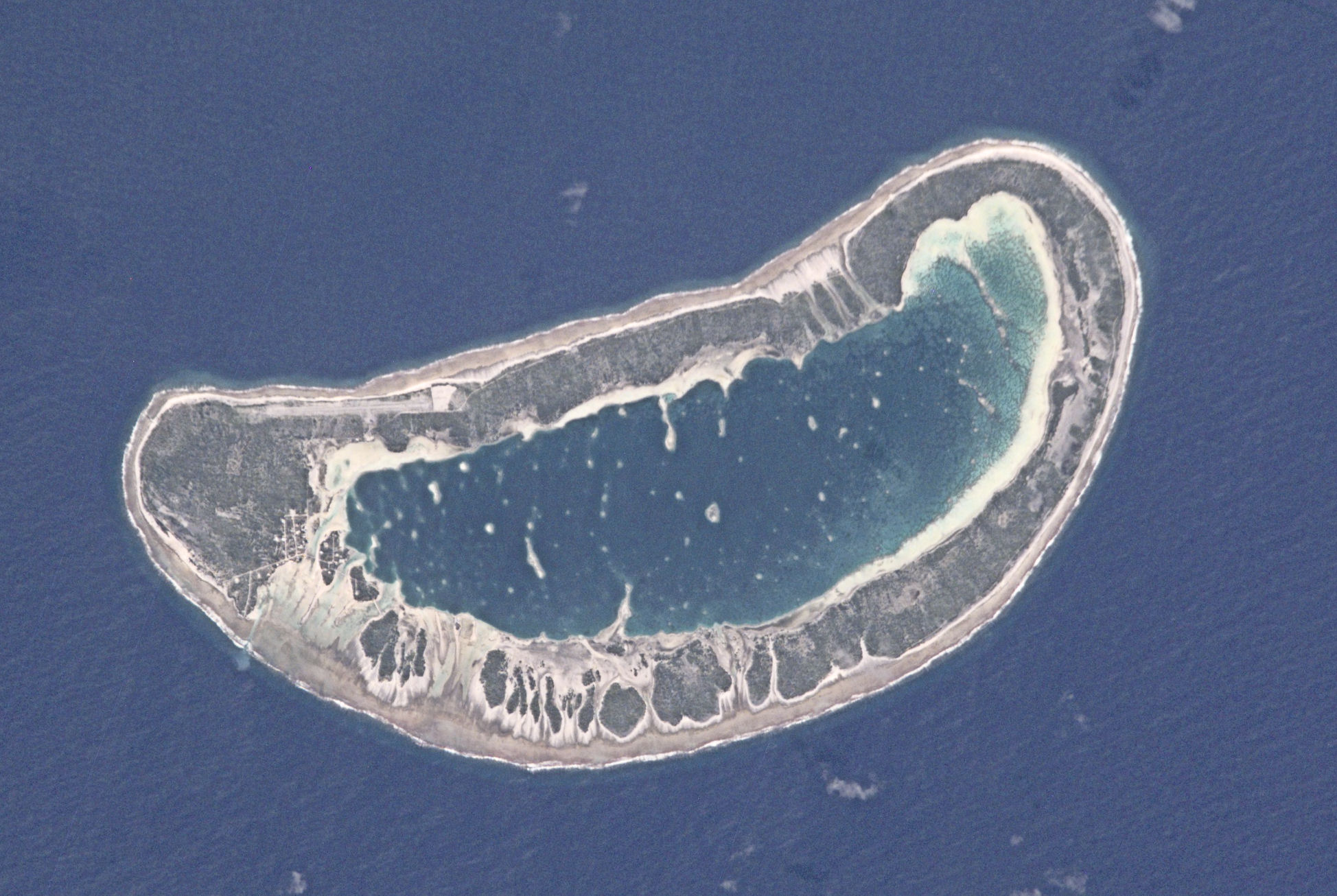 Fangatau (Tuamotu Archipelago, French Polynesia) in the Pacific Ocean